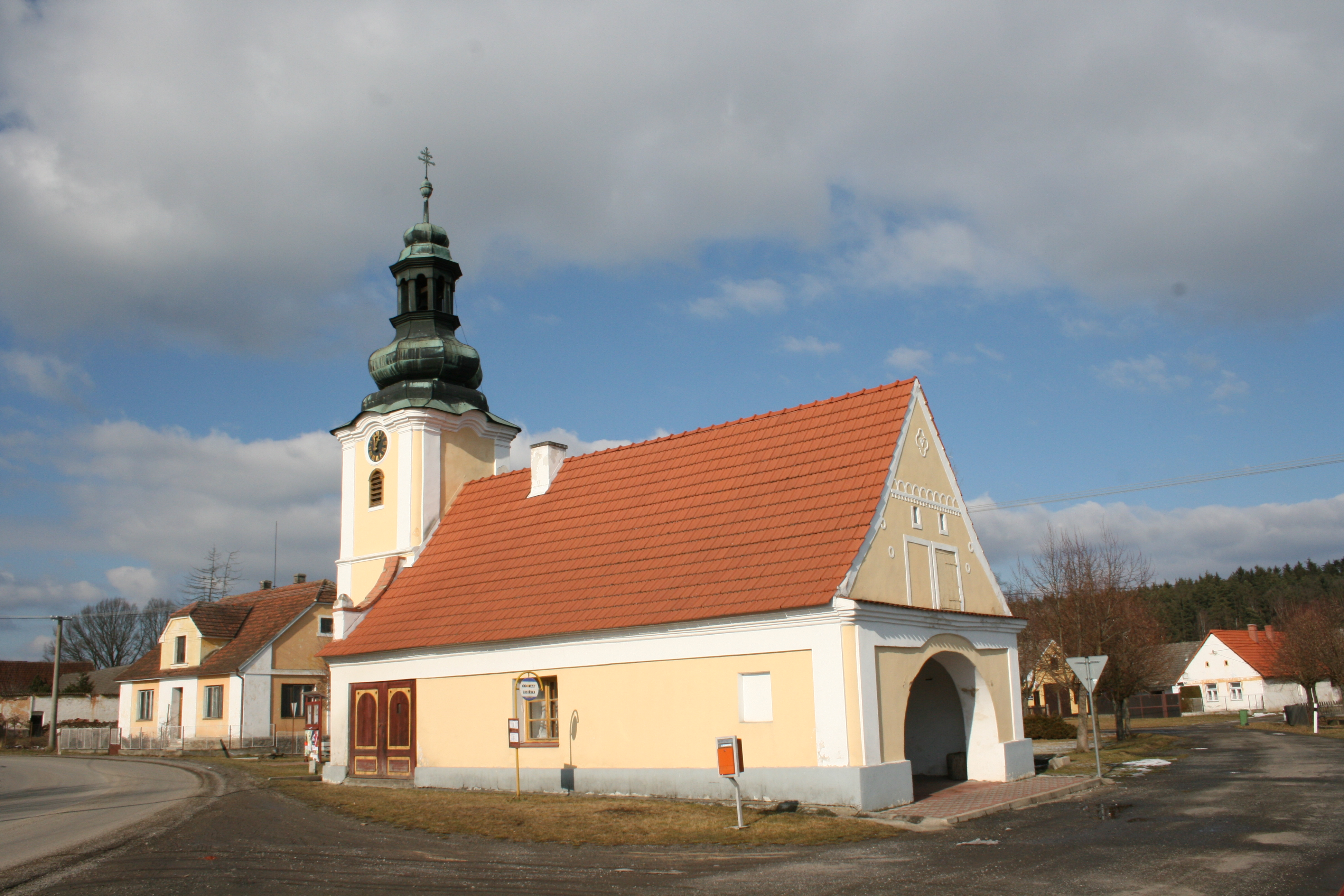 Svinky village, part of Vlastiboř village, Tábor District, Czech Republic. Chapel with forge